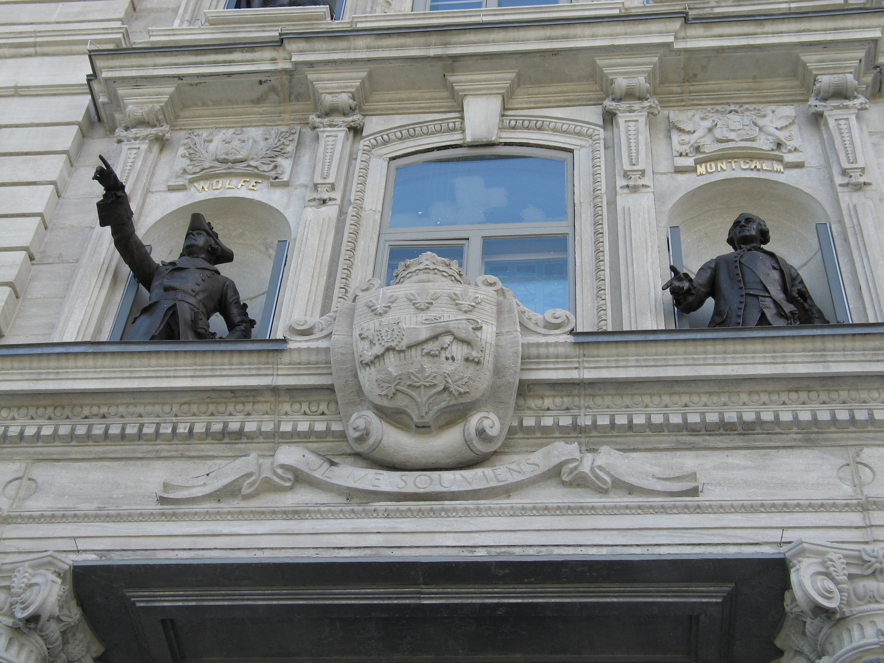 Façade of the National Assembly building in Quebec City.